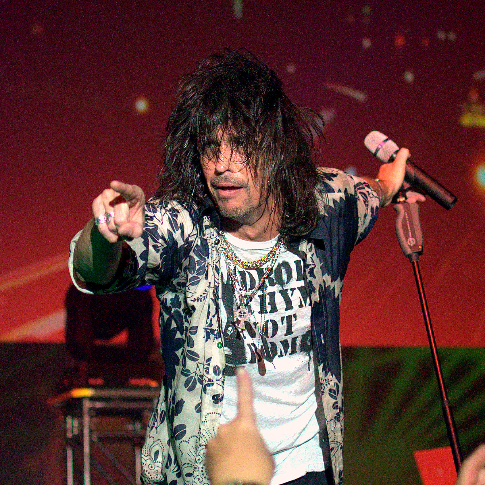 Kelly Hansen performing with Foreigner, VMWorld Party, San Francisco CA USA, 2 Sept 2009